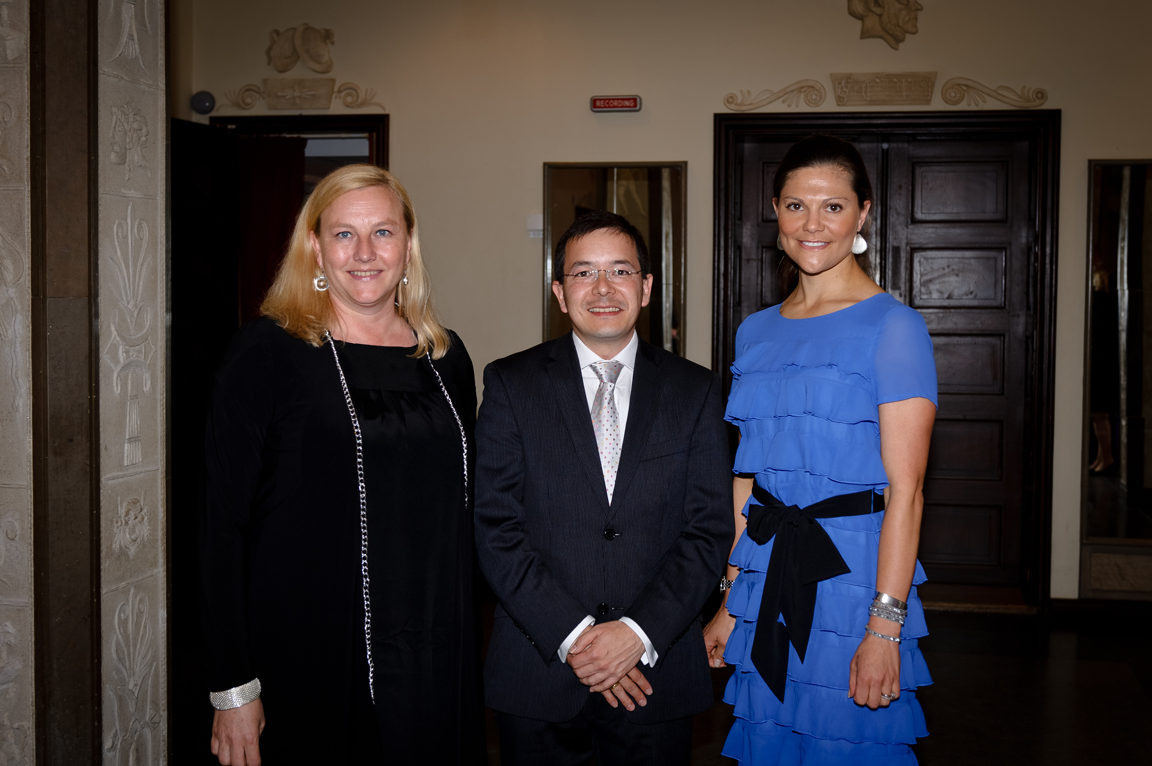 The 2011 Astrid Lindgren Memorial Award (ALMA) presentation at Stockholm Concert Hall. From left to right: Ewa Björling, Minister for Trade of Sweden, author and laureate Shaun Tan and Victoria of Sweden at the Stockholm Concert Hall.